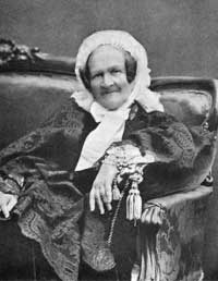 Countess Sofia Stepanovna Shcherbatova (1798-1885)